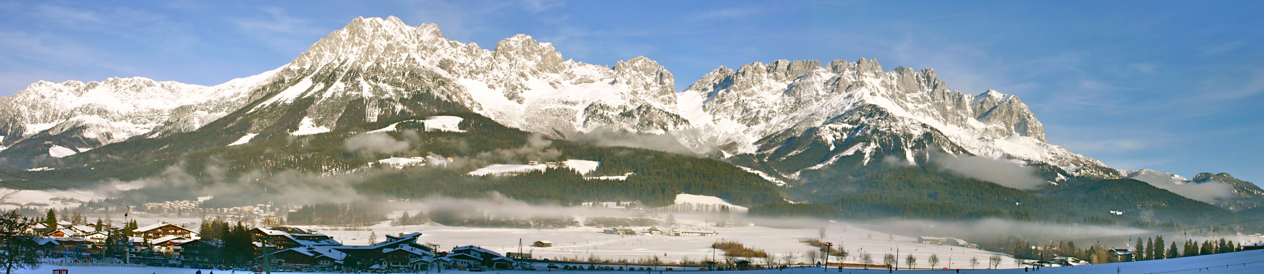 Kaiser mountain group Southside In the front the village Ellmau (Austria)